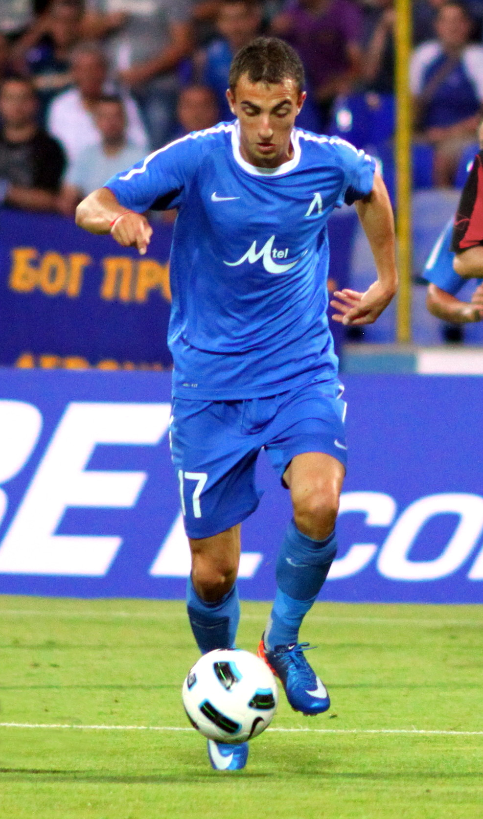 Daniel Mladenov (born on 25 May 1987) is a Bulgarian footballer, currently playing for PFC Levski Sofia as a striker. He can also play as a left and right winger.